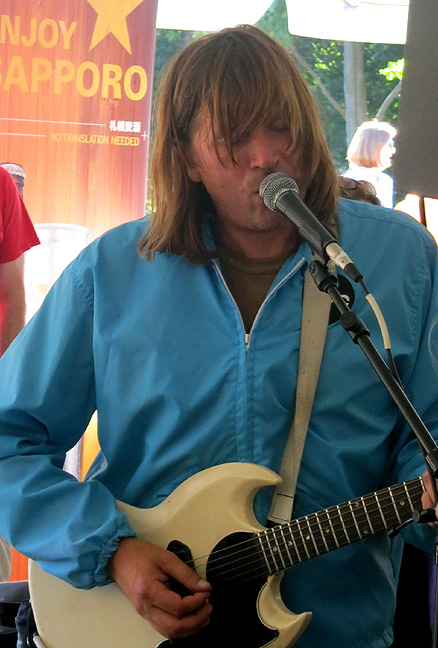 The Lemonheads at RadioBDC's "Island In The Sun" event on Thompson Island in Boston Harbor on Saturday, August 23rd, 2014.